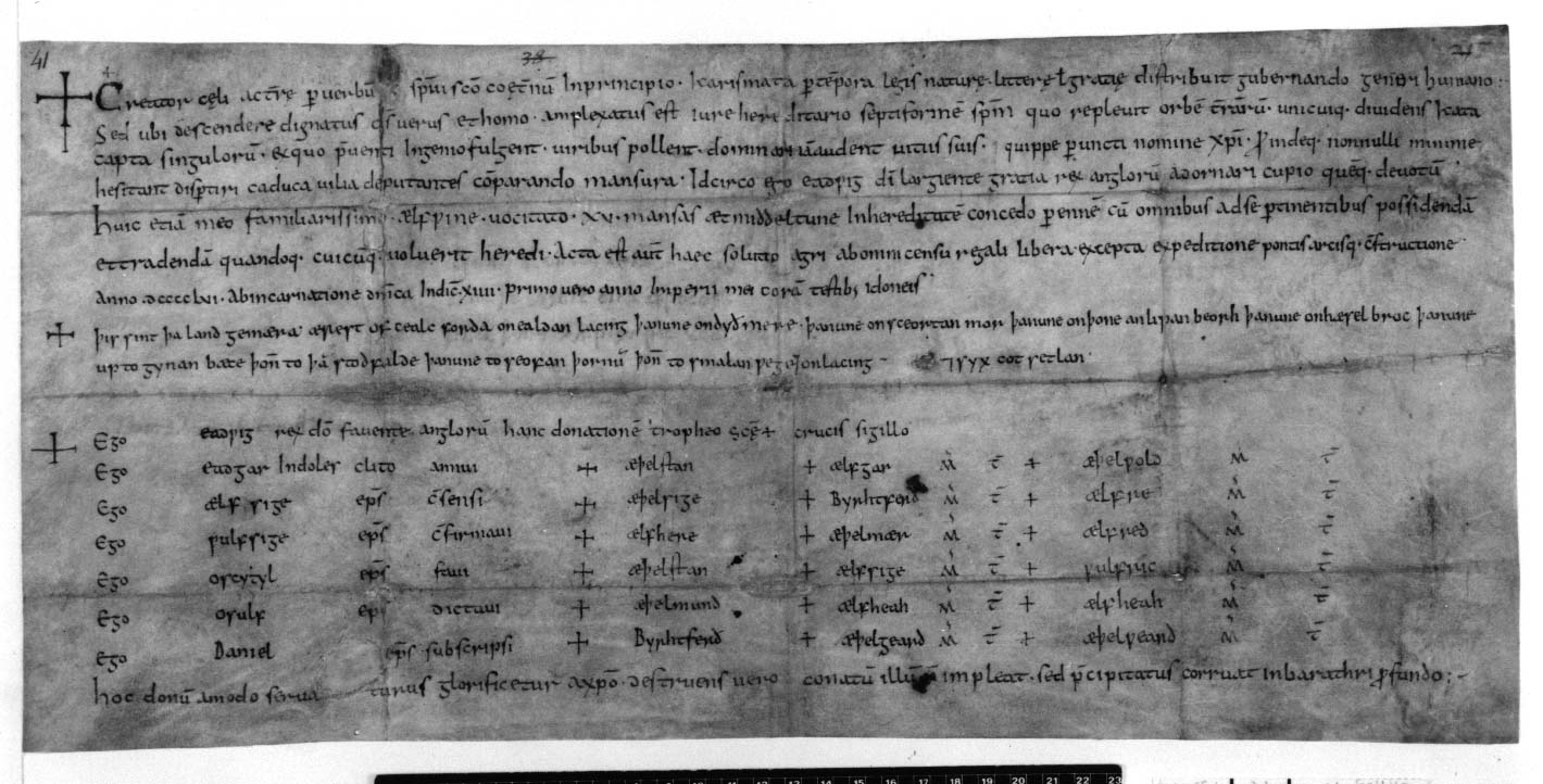 Anglo-Saxon charter S 594: King Eadwig grants land to one of his followers. (956)